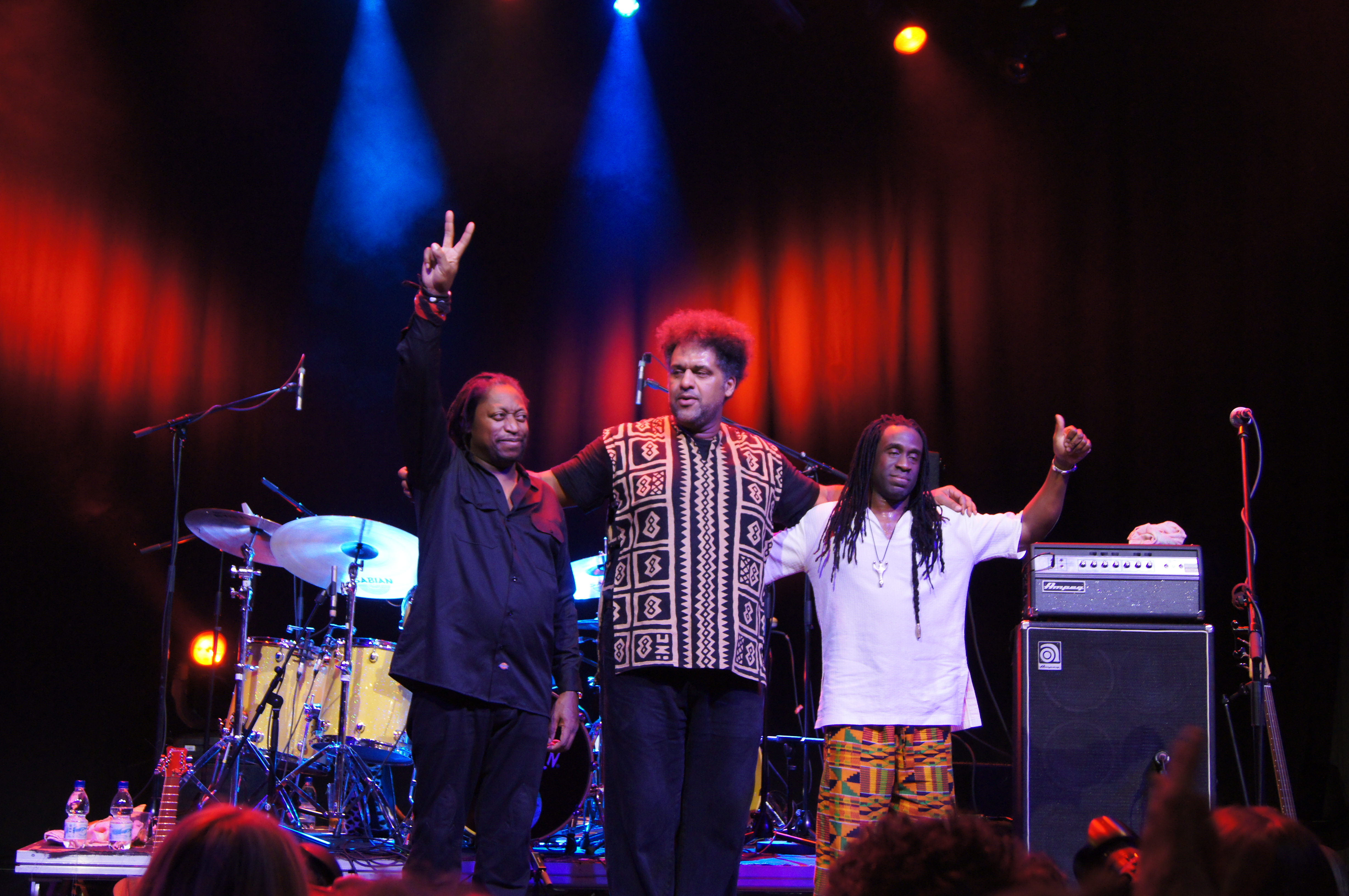 Stone Raiders American musical band on a concert in Ljubljana, Slovenia